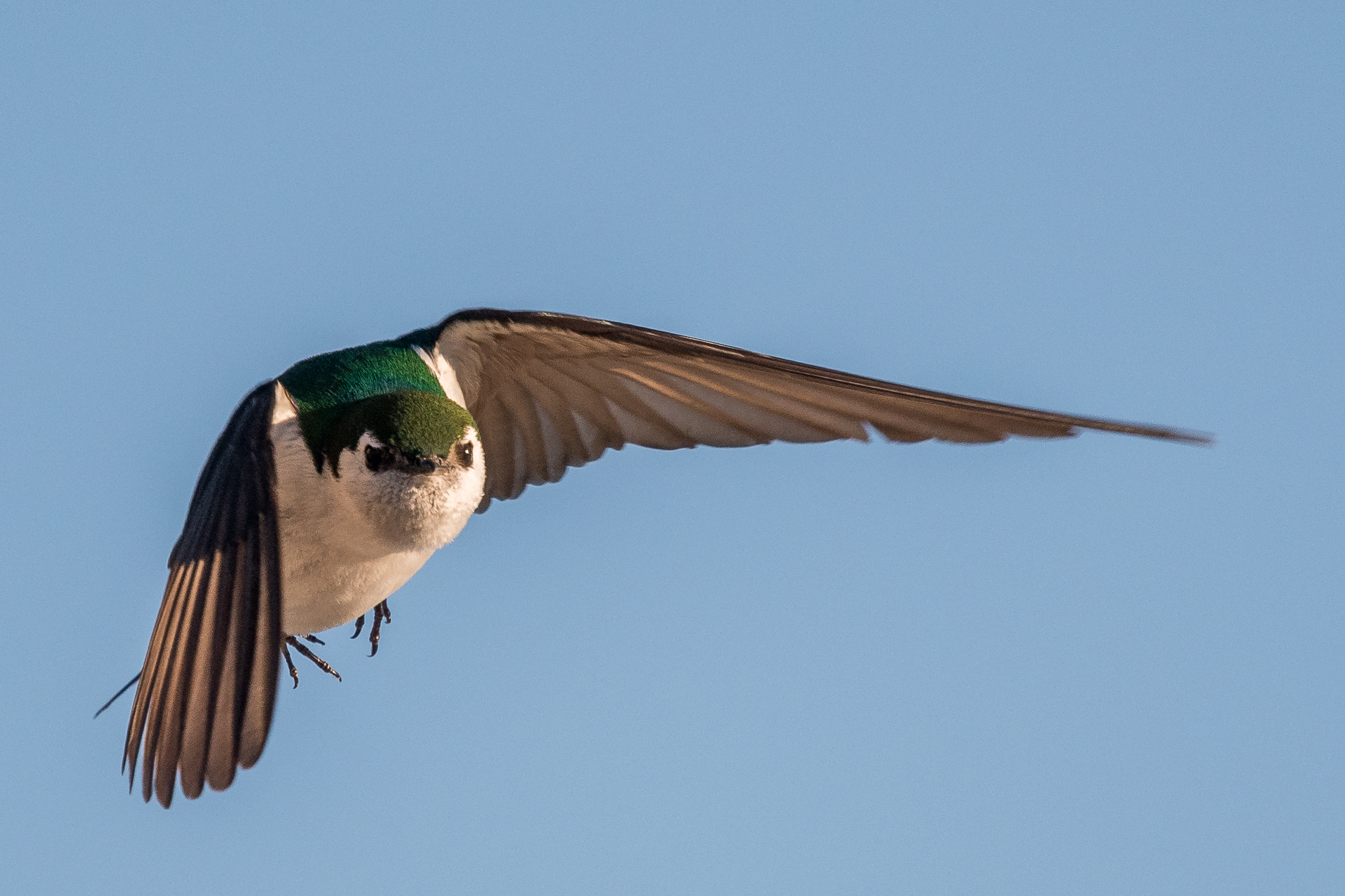 South Tufa, Mono Lake Tufa State Natural Reserve, Mono County, California